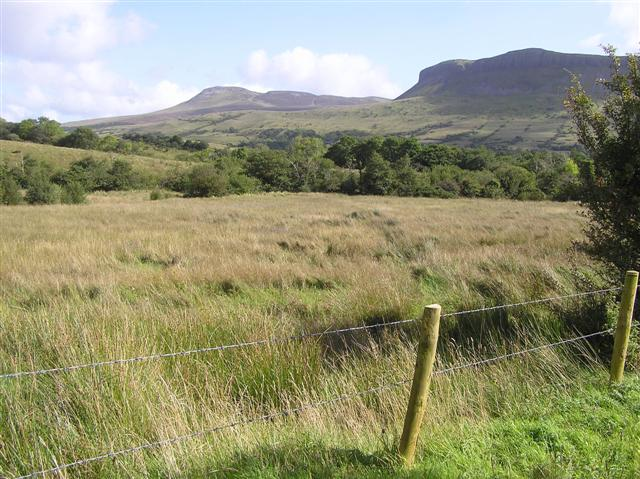 Carrownoona Townland Looking north-east